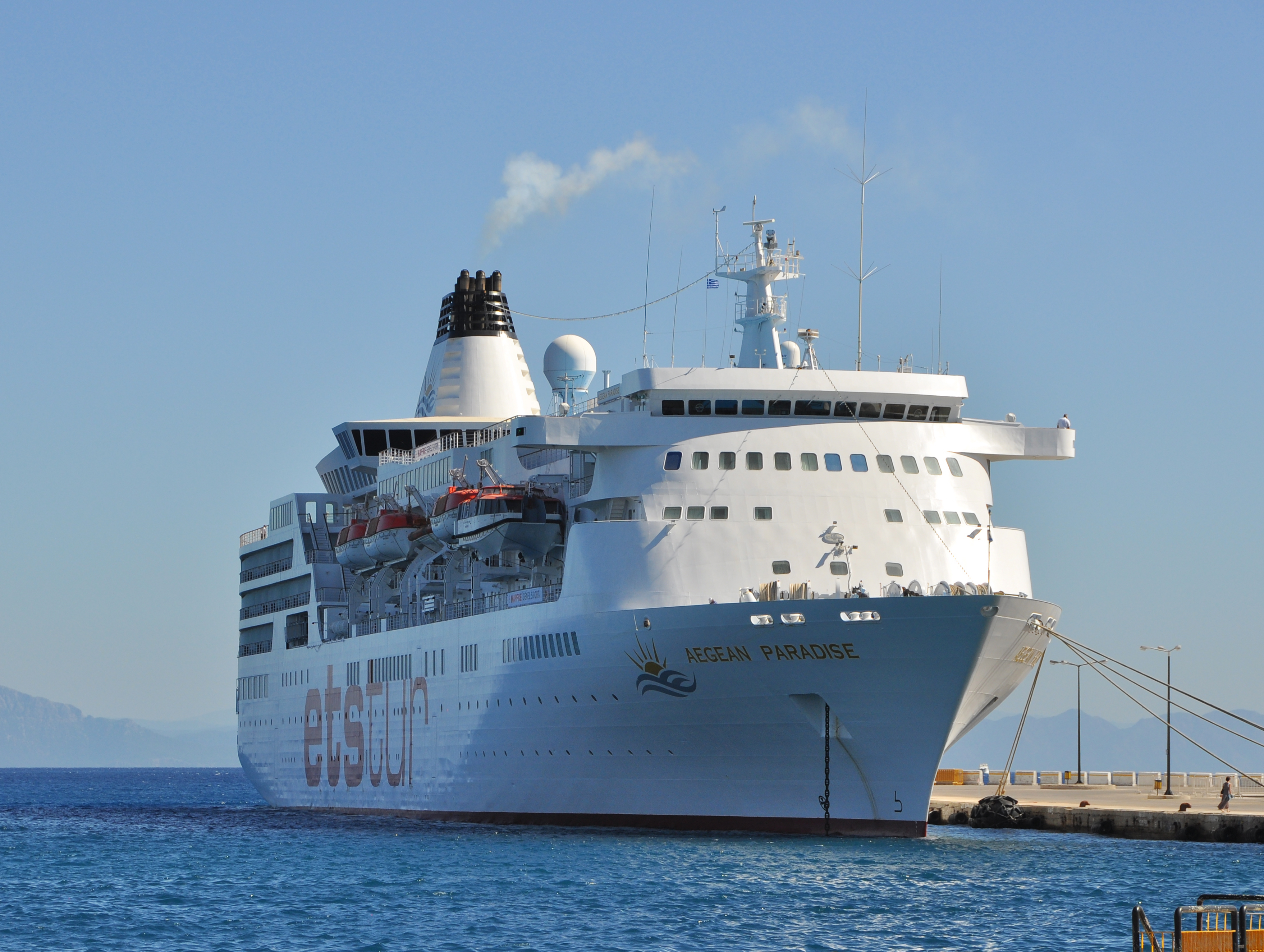 Cruise ship Aegean Paradise in the harbour of Rhodes (Greece)